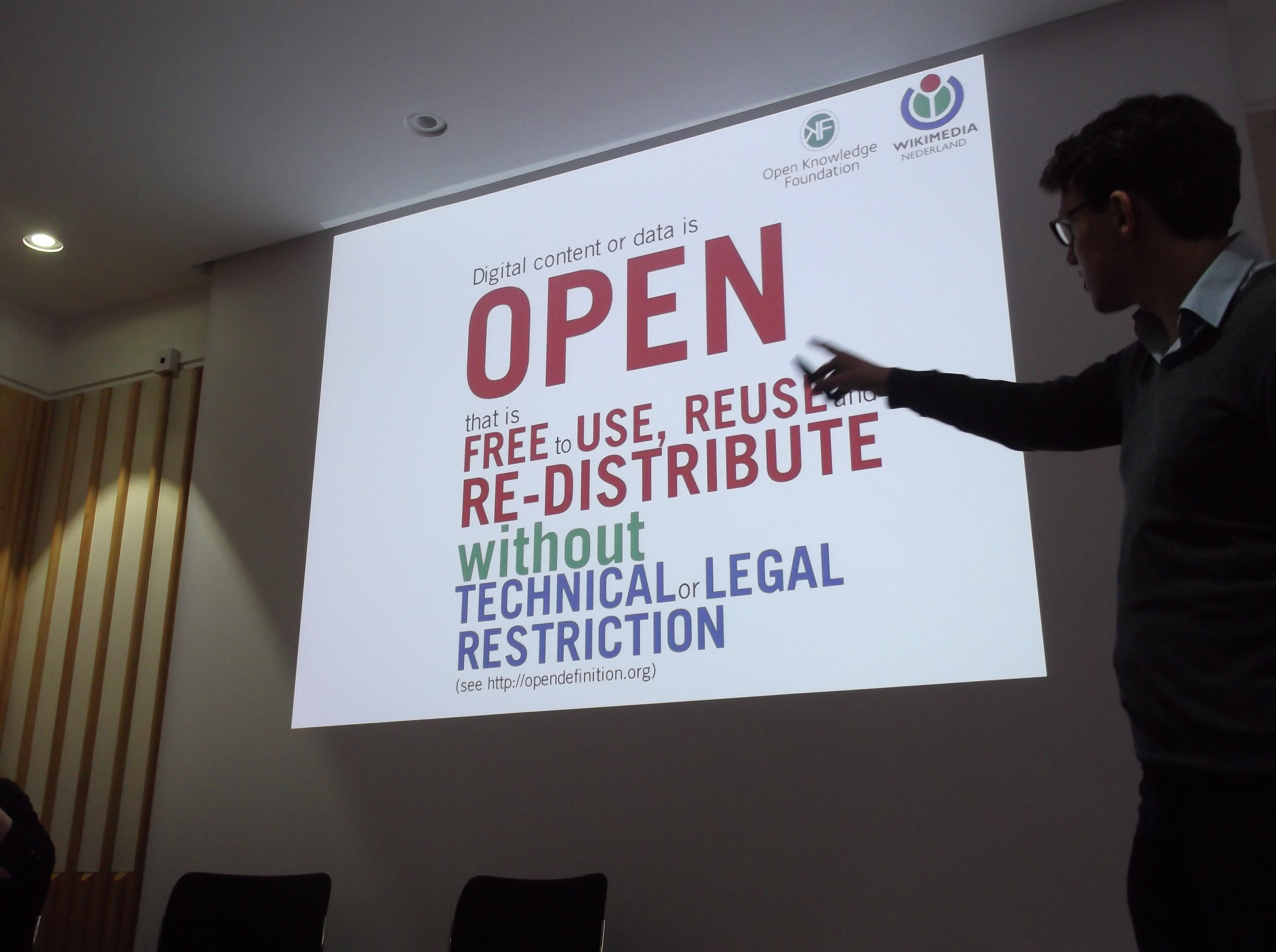 Joris Pekel presenting at